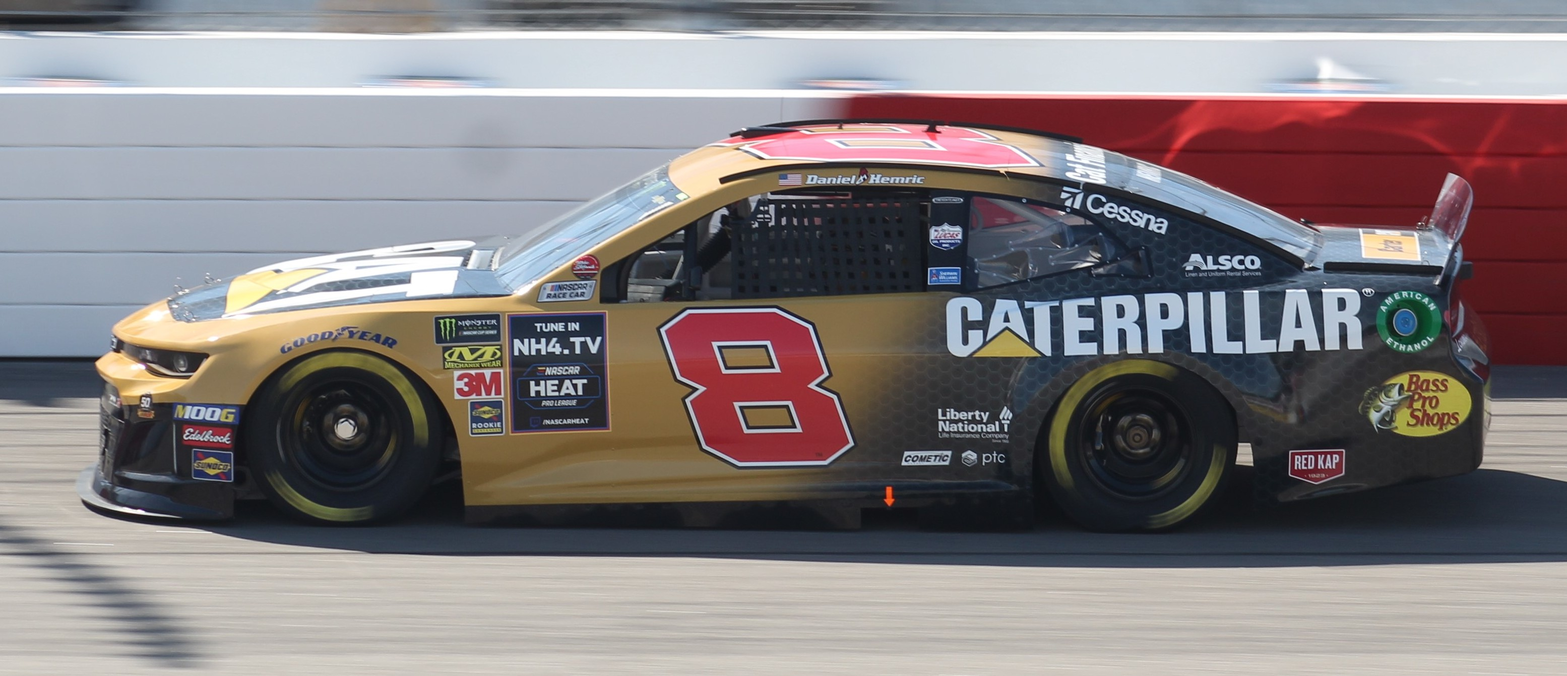 Daniel Hemric's No. 8 Caterpillar Chevrolet at Richmond Raceway in 2019